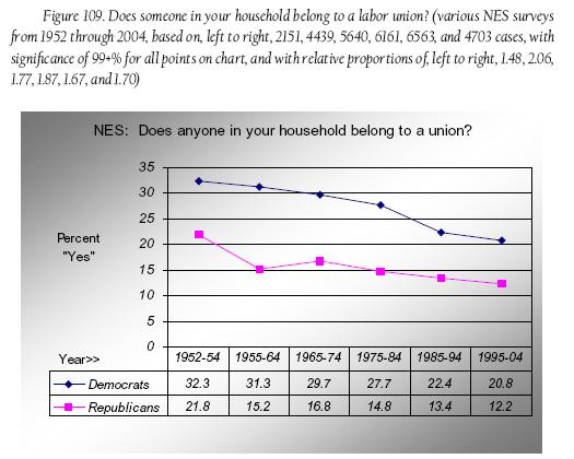 A graph labeled "Figure 109," and found on page 126. It shows the percentage of Democrats and Republicans who belong to labor unions. According to author Joseph Fried, this graphic may utilize data extracted from two large data bases: the American National Election Studies (NES) and the General Social Surveys (GSS), the original sources of the data. The related analyses and conclusions are the responsibility of the author. Further relevant information concerning NES and GSS with regard to this group of images may be found here.